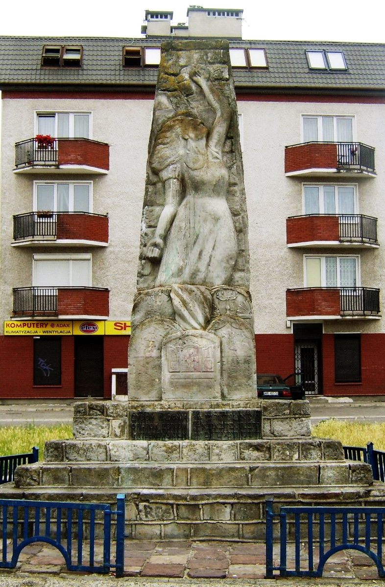 Pomnik Ofiar Getta w Radomiu